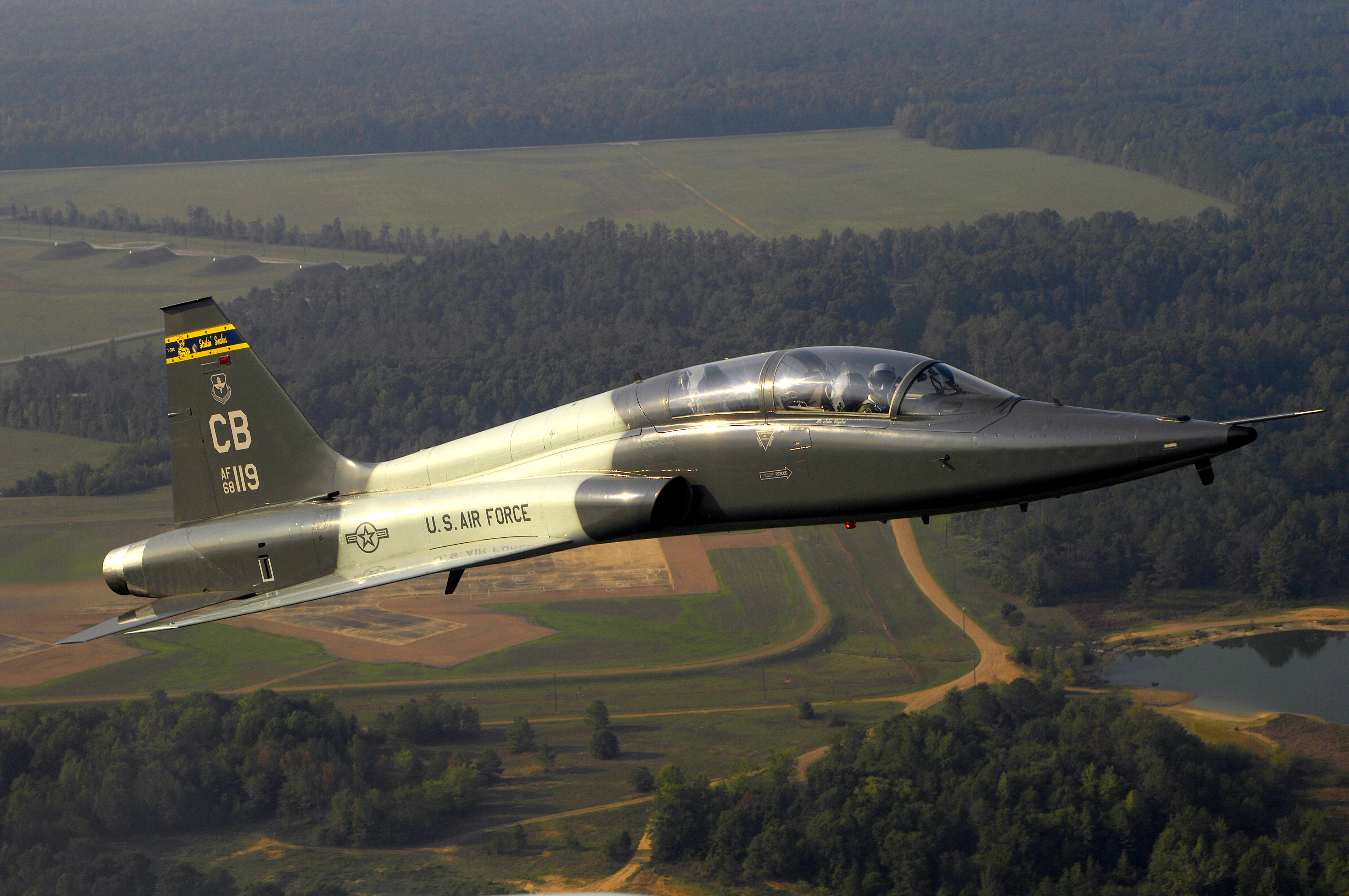 A U.S. Air Force T-38C Talon aircraft (s/n 68-8119) from the 50th Flying Training Squadron performs a routine flying mission near Columbus Air Force Base, Mississippi (USA), on 7 September 2006.